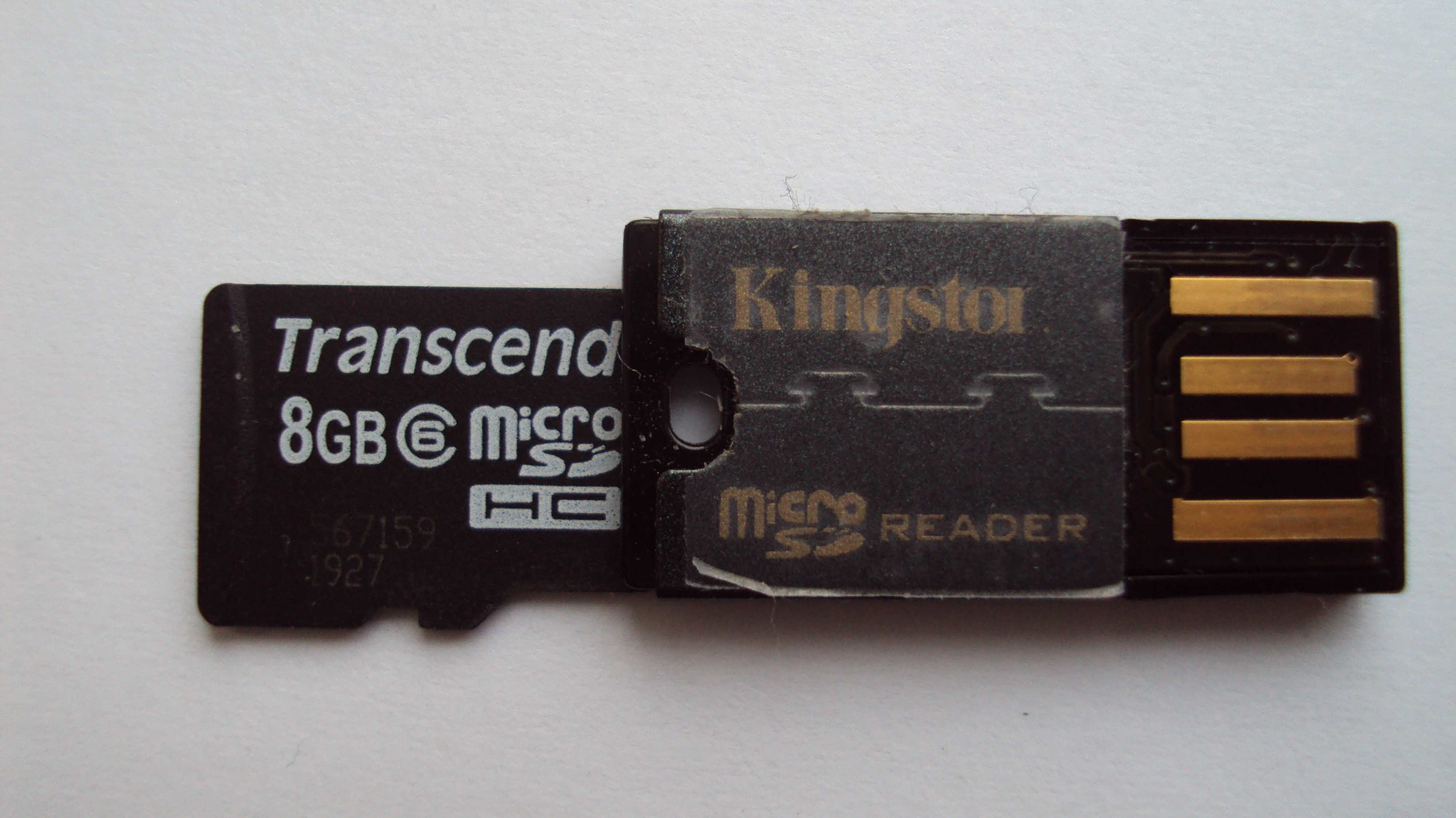 USB MicroSD Reader by Kingston + MicroSDHC card by Transcend